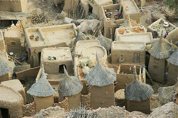 Dario Menasce, I.N.F.N. Milano